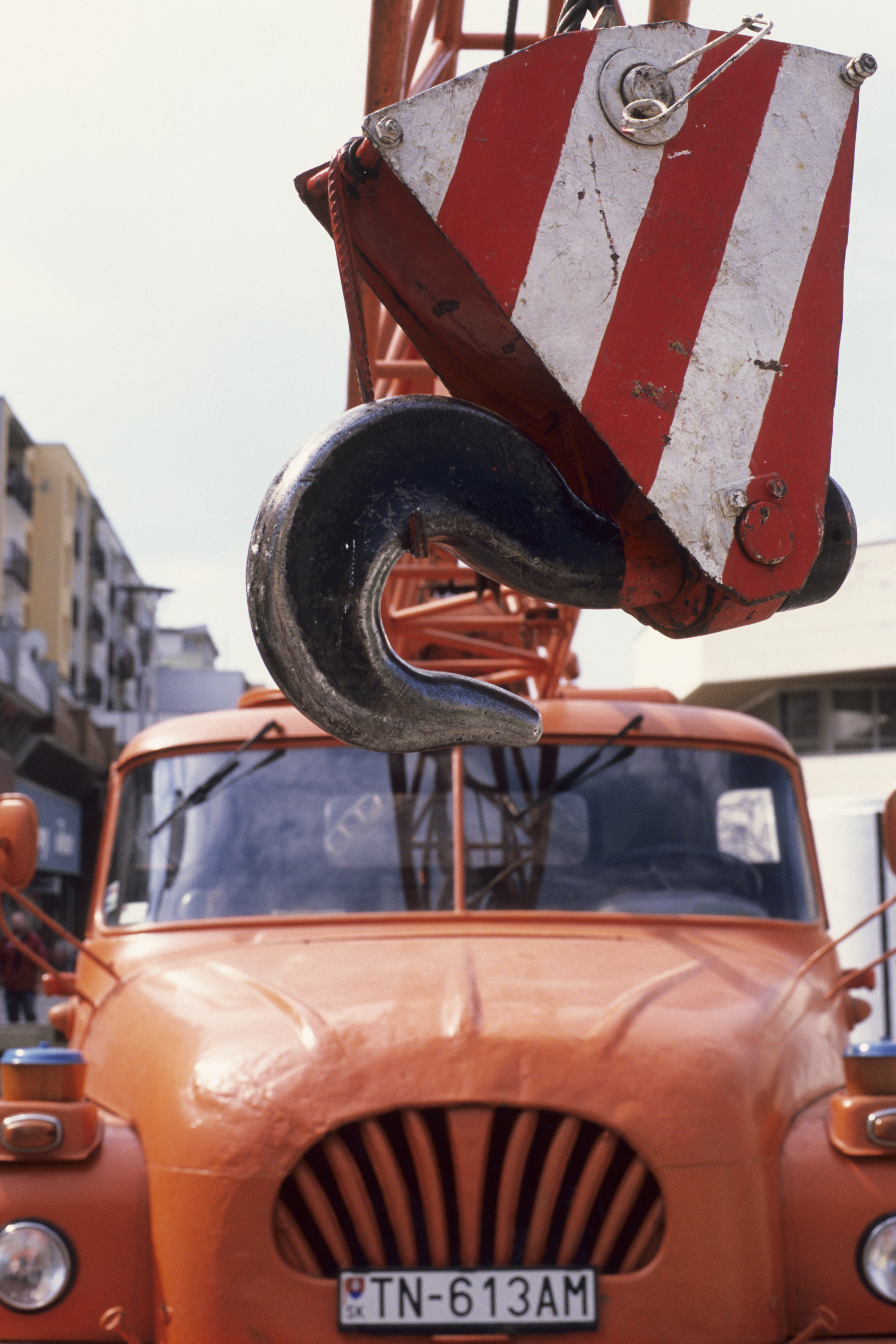 Tatra 138 mobile crane